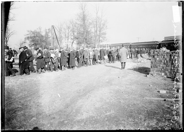 Dunning inmates arriving at Oak Forest Infirmary, IL. (This photonegative taken by a Chicago Daily News photographer may have been published in the newspaper.)